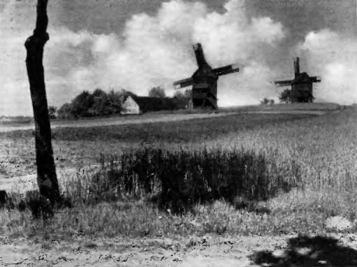 Windmills by Chróścina